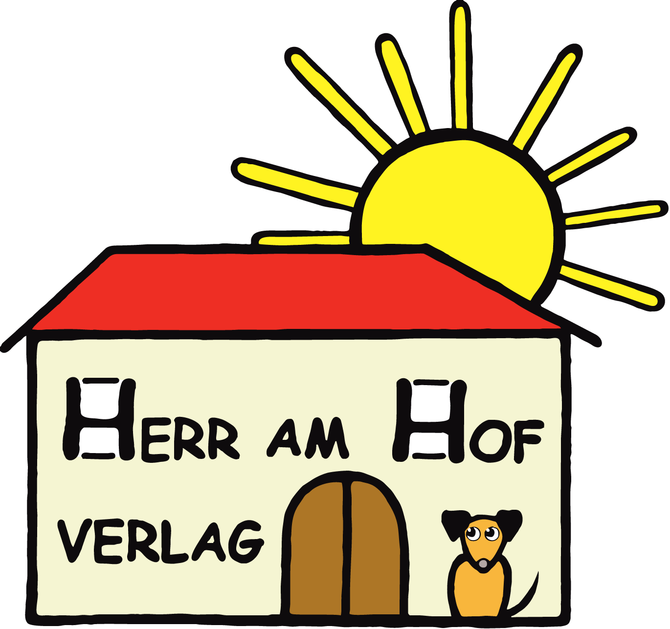 Herramhof Verlag Logo